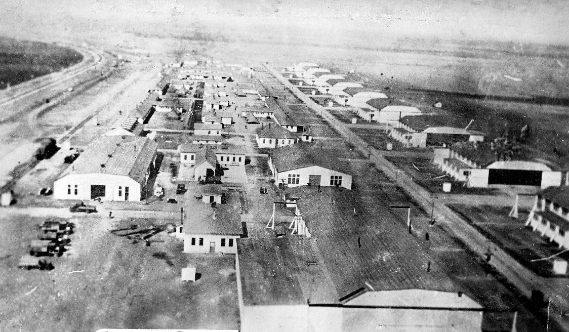 Airphoto of Love Field, Texas, 1918